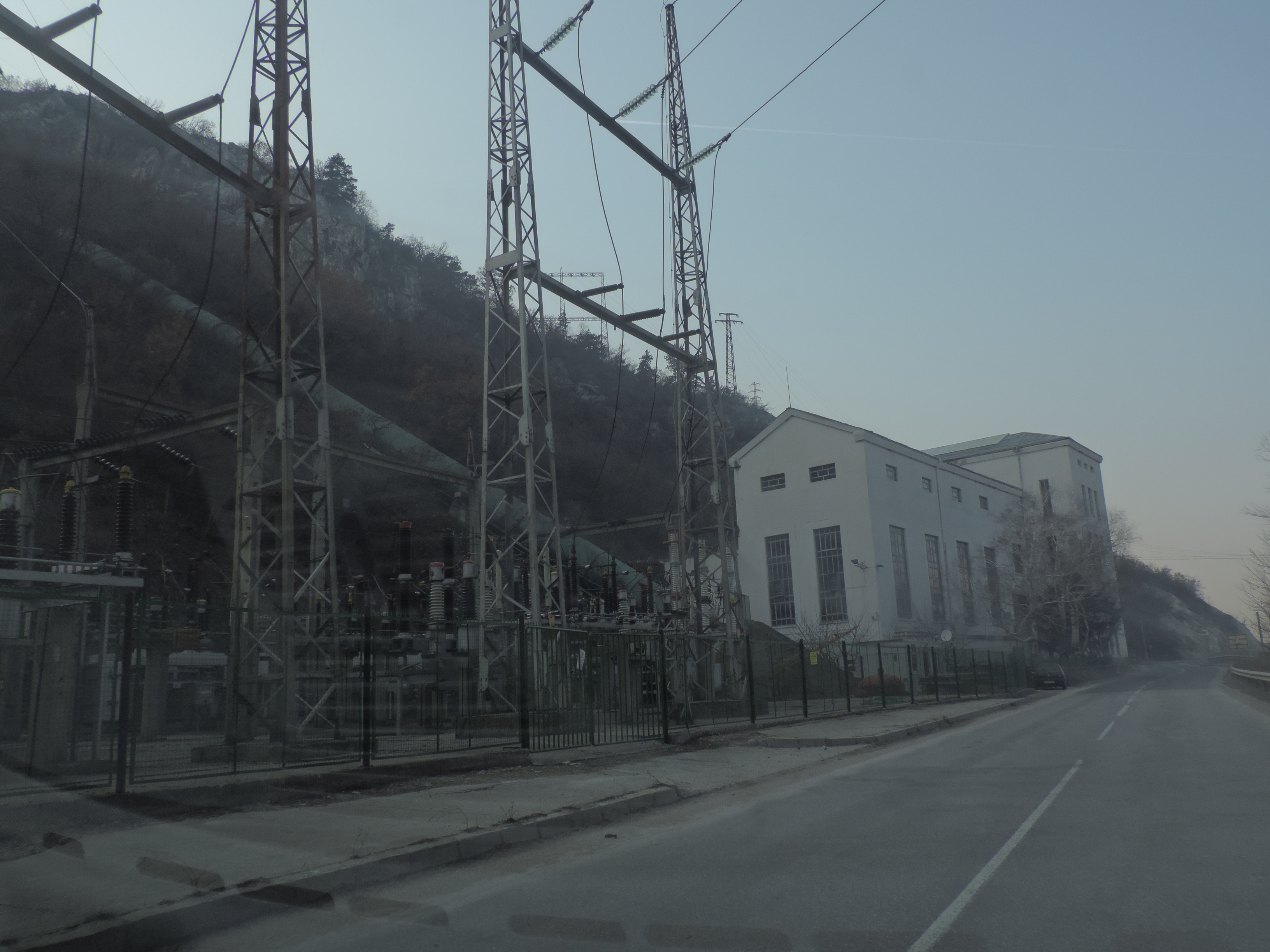 Hydroelectric Powerplant Vacha I